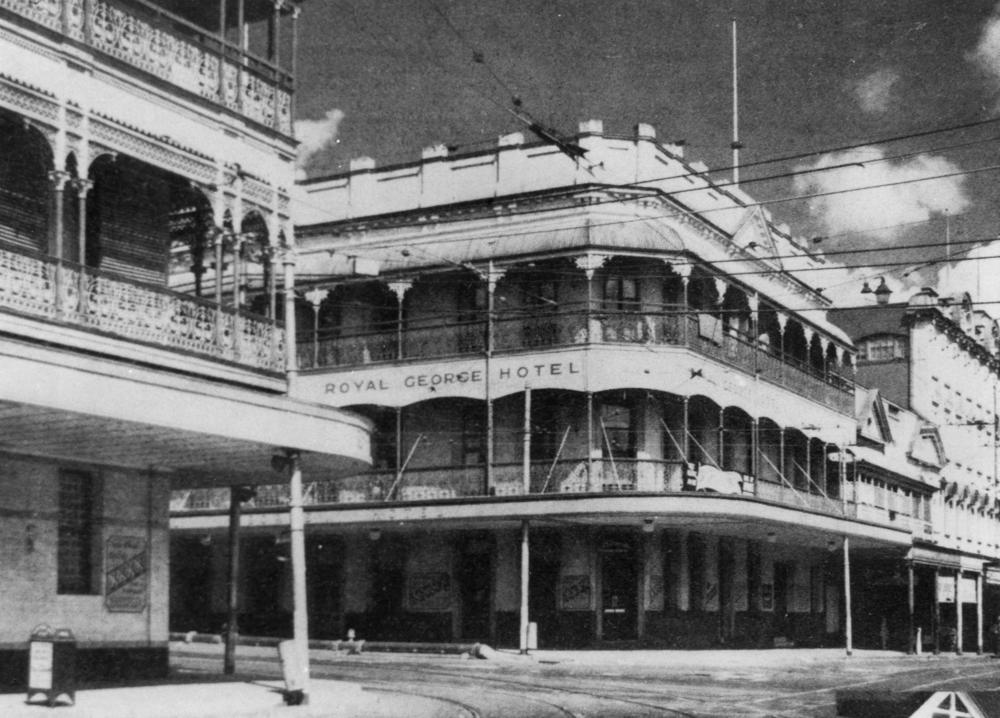 Royal George Hotel in Fortitude Valley, Brisbane, ca. 1942. Three storey corner hotel with verandahs.